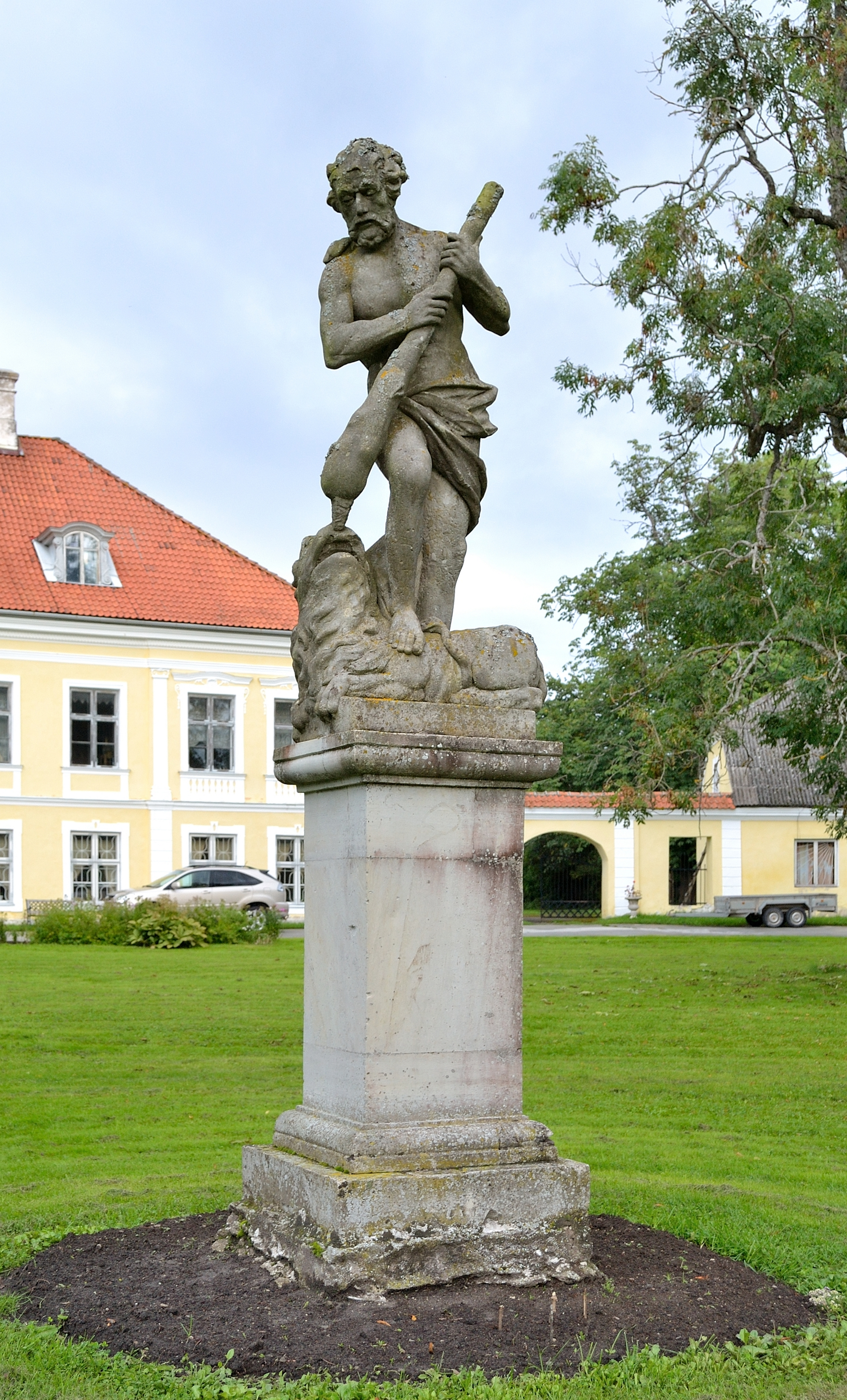 Sculpture "Heracles" in Saue manor park, 19. century This photograph was taken with a Nikon D3100